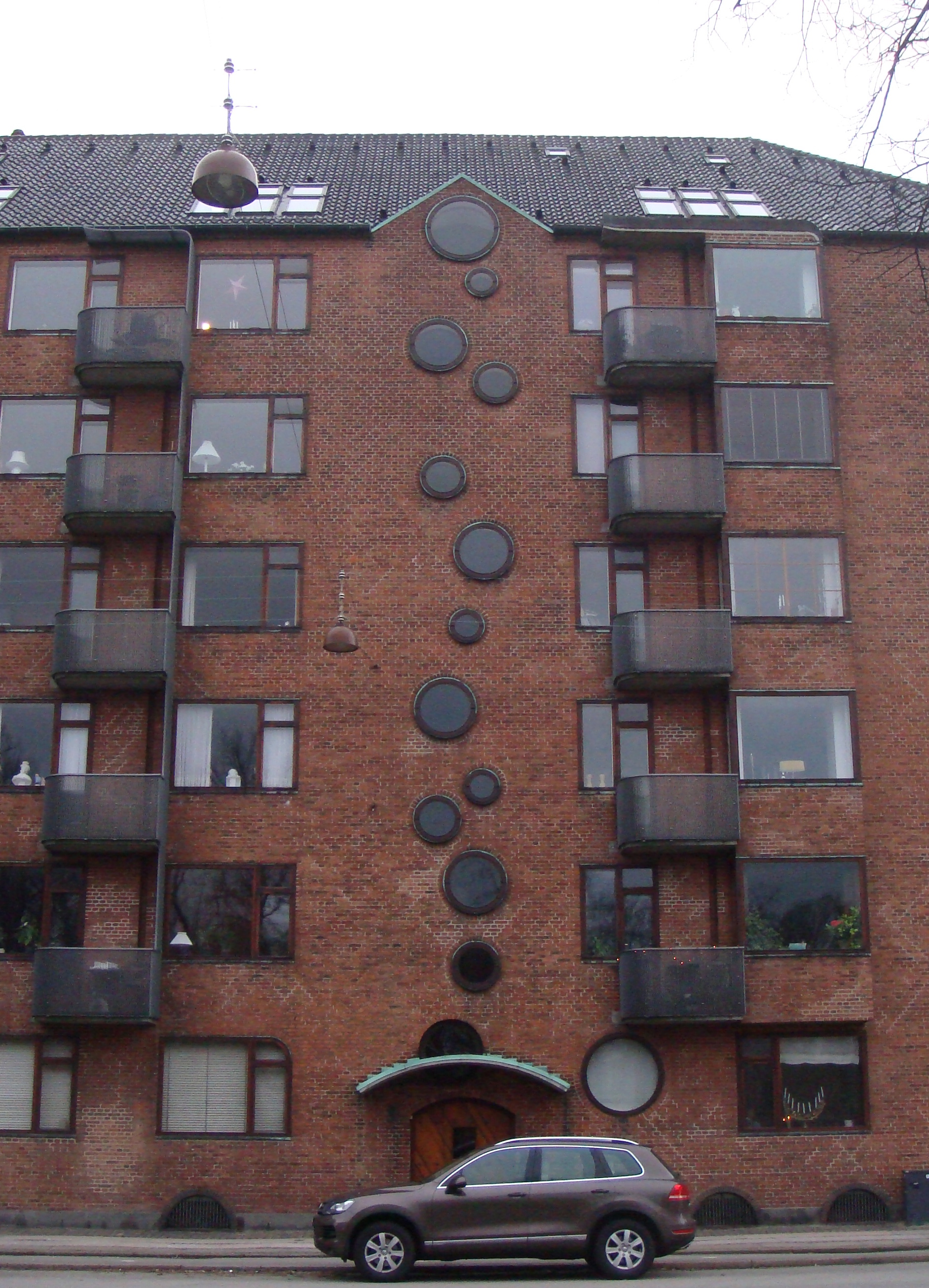 Stairwell windows on a building in Copenhagen. The moment I saw the theme was bubbly, I knew I would take a photo of these windows. I've loved them ever since I first saw them. I forget the name of the architect who designed this, so I'd appreciate it if someone could tell me in the comments.